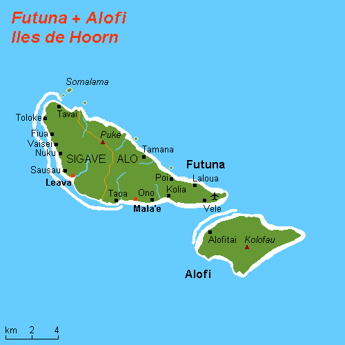 Map (rough) Hoorn Islands, Wallis and Futuna, own work composed from various mapreferences